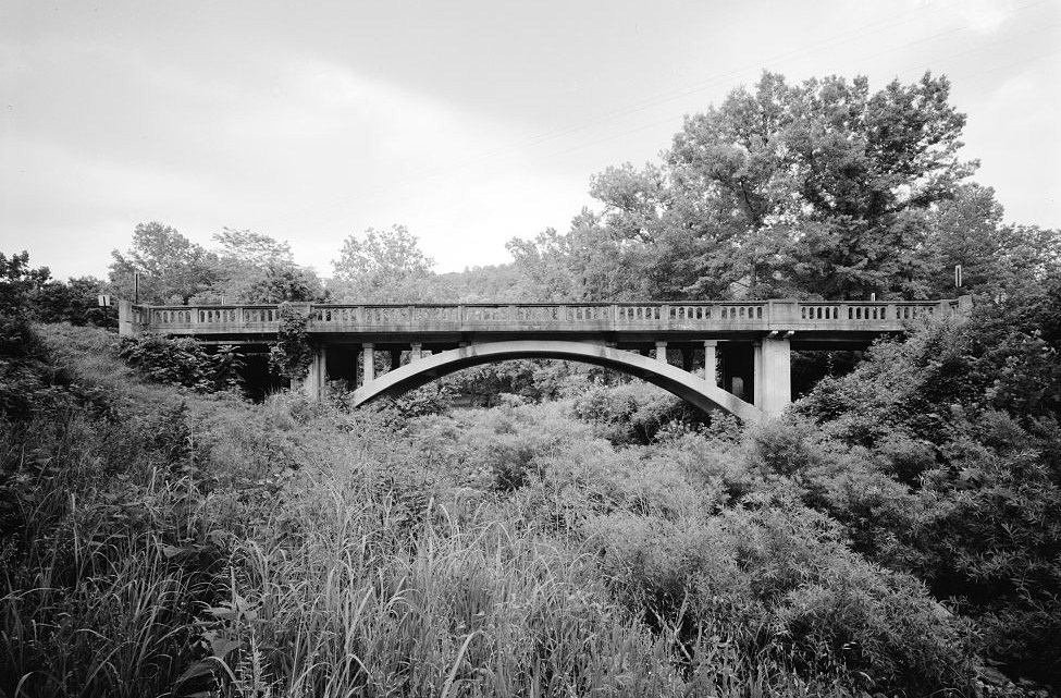 Harp Creek Bridge, Spans Harp Creek at State Highway 7, Harrison vicinity (Newton County, Arkansas) cropped, HAER ARK,51-HAR.V,1-5 This image or media file contains material based on a work of a National Park Service employee, created as part of that person's official duties. As a work of the U.S. federal government, such work is in the public domain. Creator: U.S. Department of the Interior, National Park Service, Historic American Engineering Record. Survey number HAER AR-9 Source: U.S. Library of Congress, Prints and Photographs Division, "Built in America" Collection. Copyright: "The records in HABS/HAER were created for the U.S. Government and are considered to be in the public domain." [1]